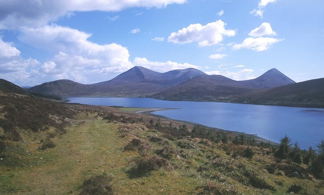 Young trees, Scalpay, Inner Hebrides, looking south to the Isle of Skye.